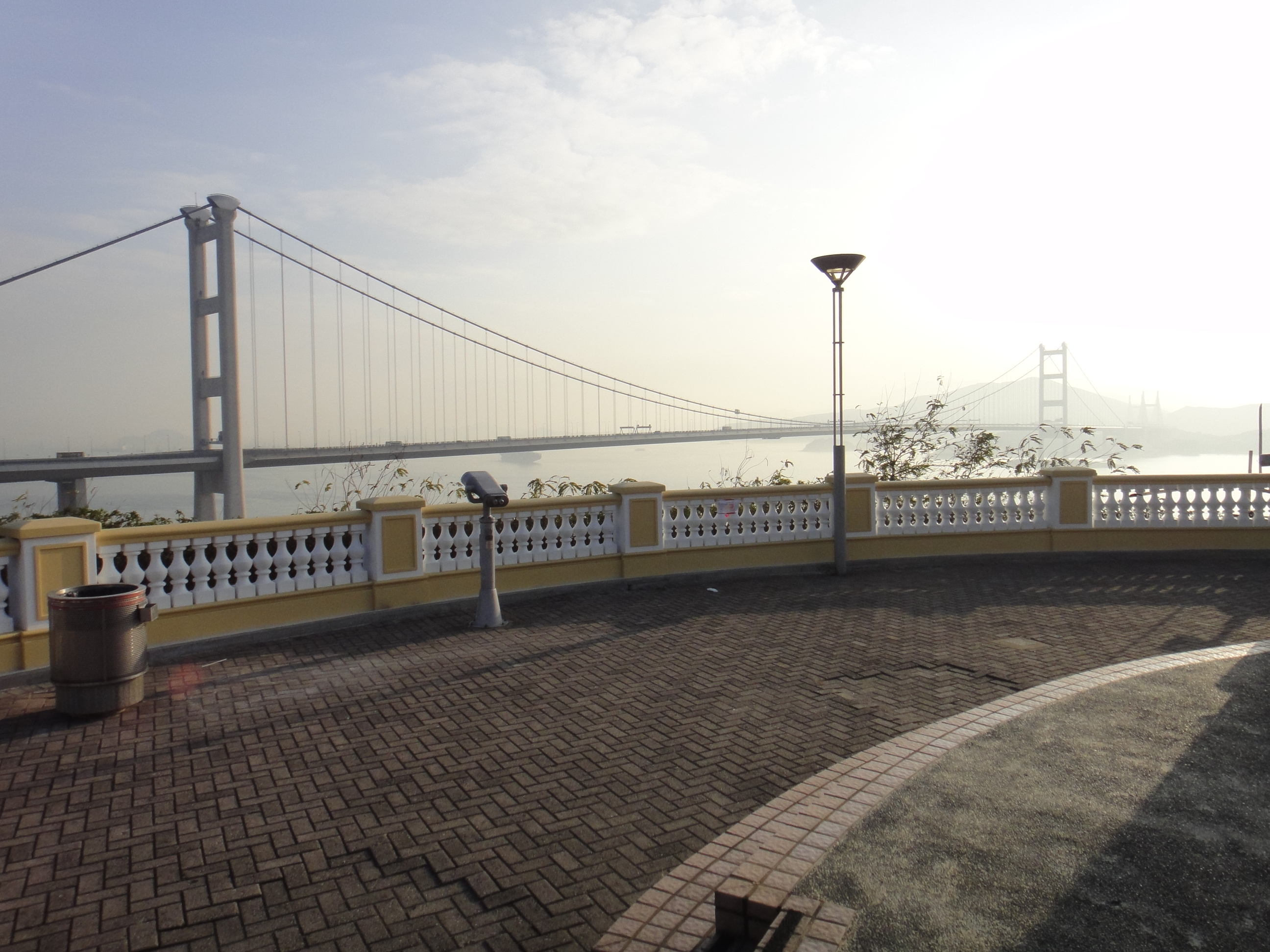 Lantau Link Visitors Center